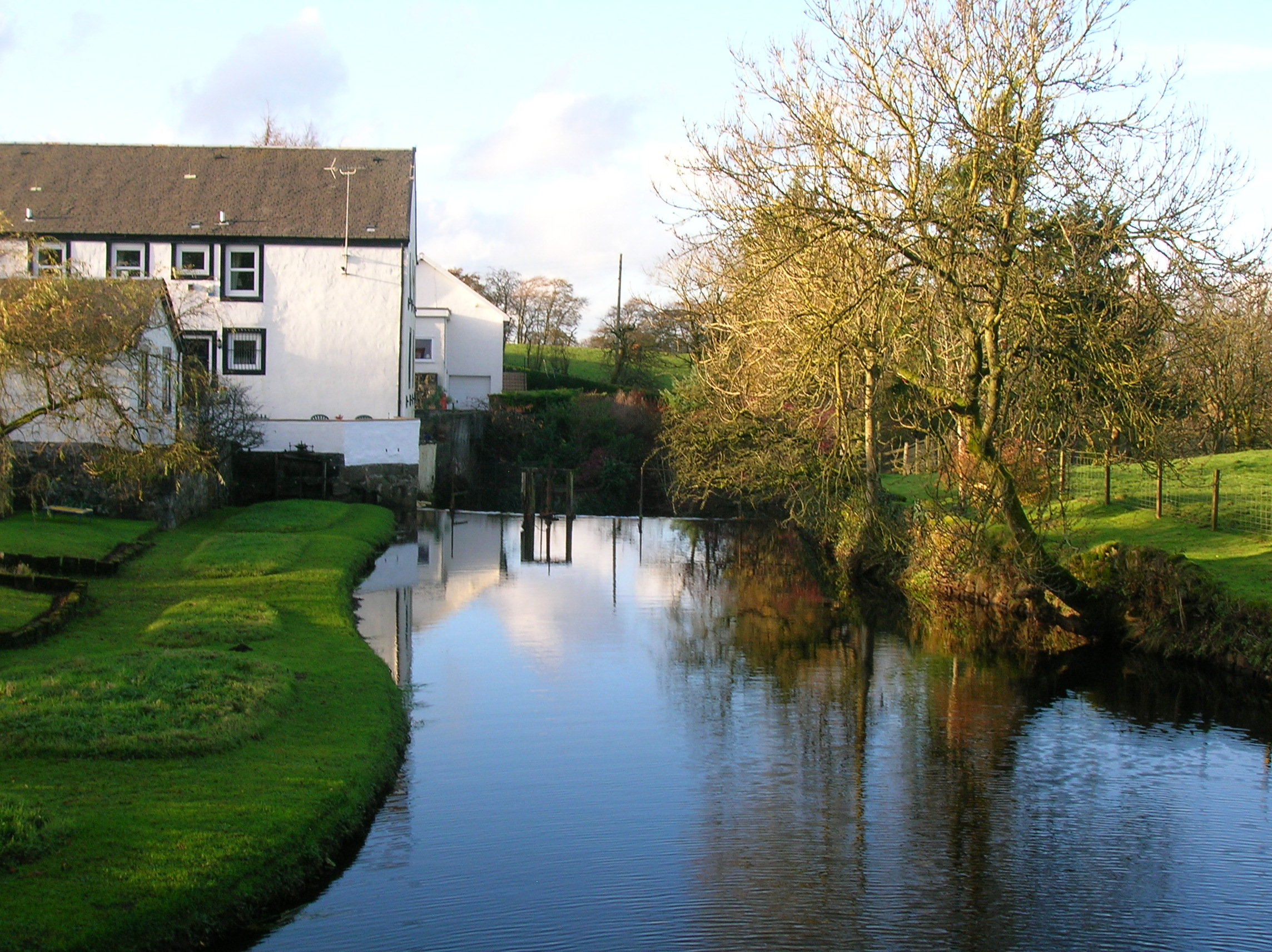 Millhall Mill, Polnoon Burn, East Renfrewshire, Scotland